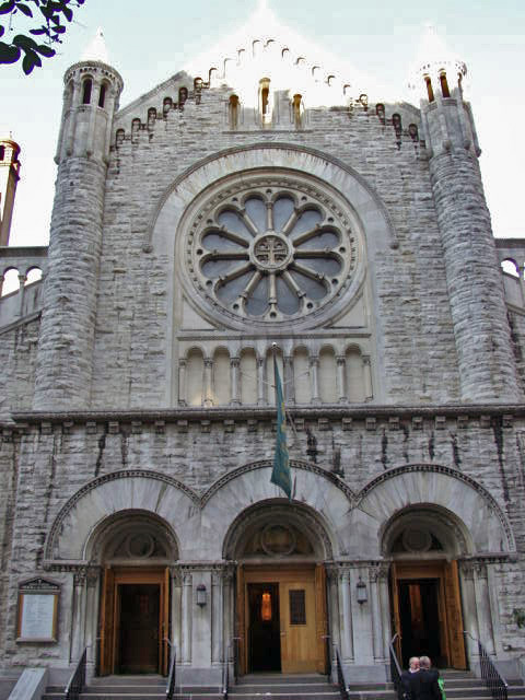 again. i took this picture in 2001 at class reunion. have better pictures if i can find them.joe| 01:28, 7 August 2006 (UTC) Category:Images of churches in Manhattan Summary again. i took this picture in 2001 at class reunion. have better pictures if i can find them.joe 01:28, 7 August 2006 (UTC)